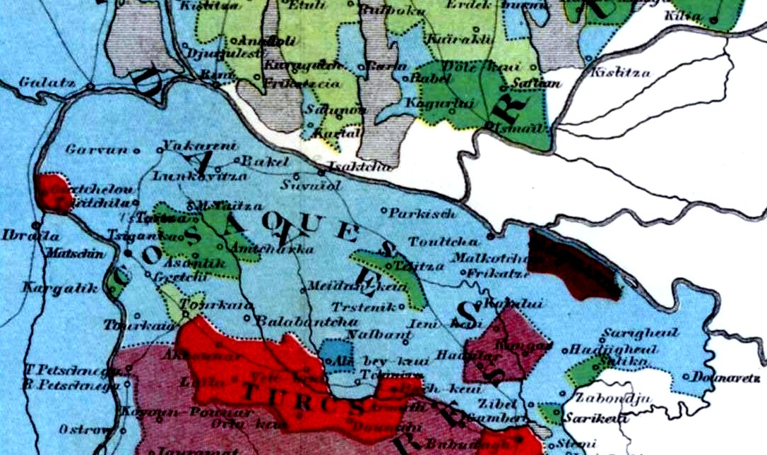 Ethnographic map of Northern Dobruja, 1861, crop of Image:Balkans-ethnic (1861).jpg